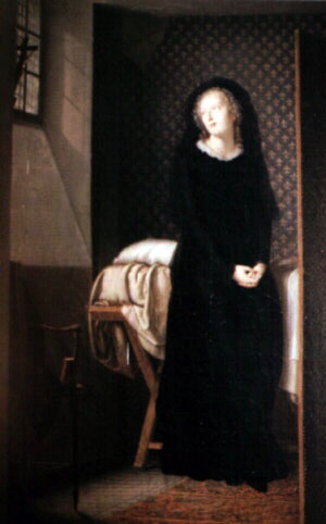 Postumous portrait of Marie Antoinette in the Conciergerie.